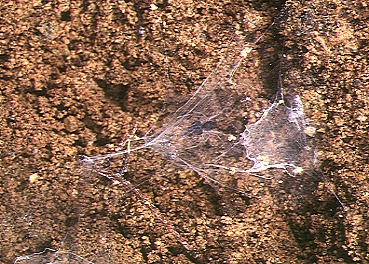 female Oilinyphia peculiaris from Okinawa.